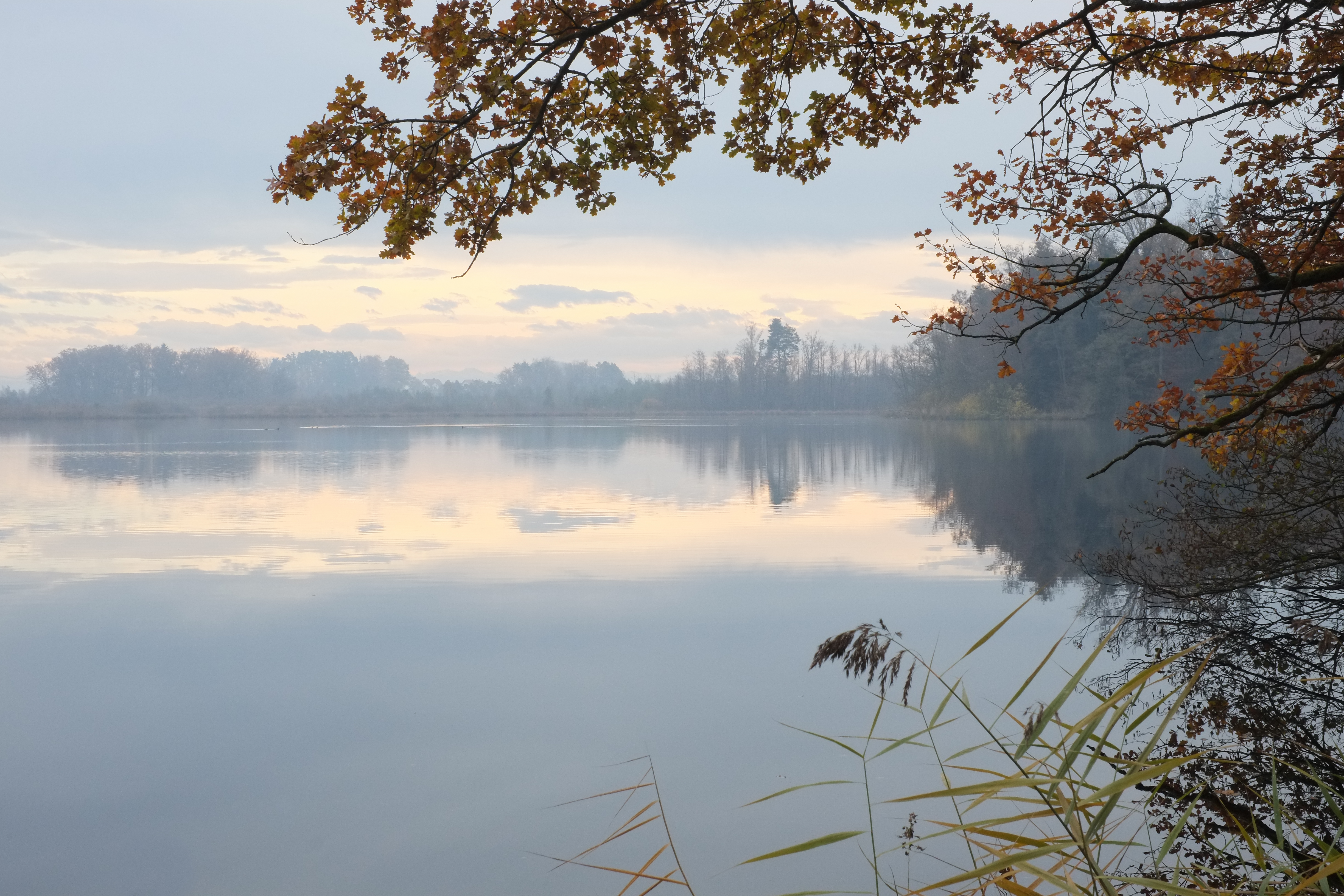 Lake Häcklerweiher, Fronreute-Blitzenreute, Baden Wurttemberg, Germany